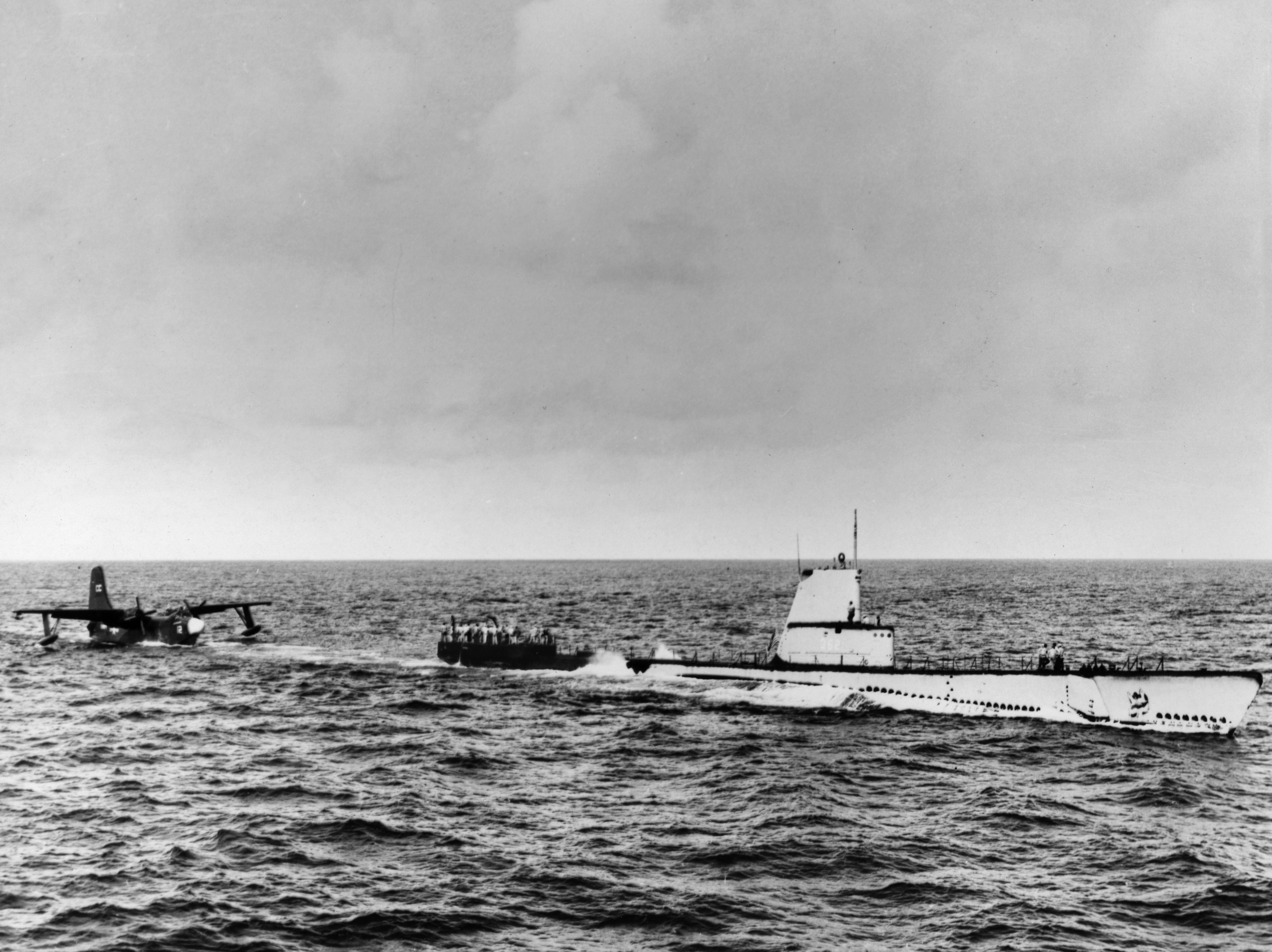 The U.S. Navy submarine USS Guavina (AGSS-362) fueling a Martin P5M-1 Marlin of Patrol Squadron 44 (VP-44) in the open sea off Norfolk, Virginia (USA), in 1955. Prior to World War II, several submarines were fitted to refuel seaplanes. During the war, Germany and Japan used this technique with some success. After the war this technique was experimented with within the U.S. Navy. It was planned to use submarines to refuel the new jet powered Martin P6M Seamaster flying boats. As part of this program, Guavina was converted to carry 160,000 gallons (605,700 l) for aviation fuel. To do this, blisters were added to her sides and two stern torpedo tubes were removed. When the P6M project was canceled, there was no further need for submarine tankers. This concept was never used operationally in the U.S. Navy.